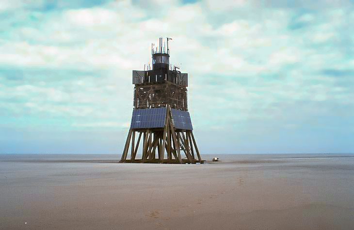 Lighthouse on Süderoogsand, Northern Friesland, Germany